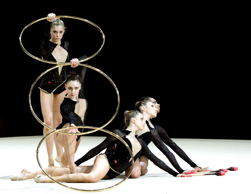 A group of rhythmic gymnasts posing.